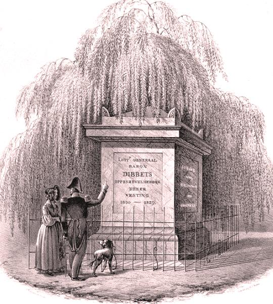 Grafmonument van generaal Dibbets, oorspronkelijk buiten de Boschpoort.